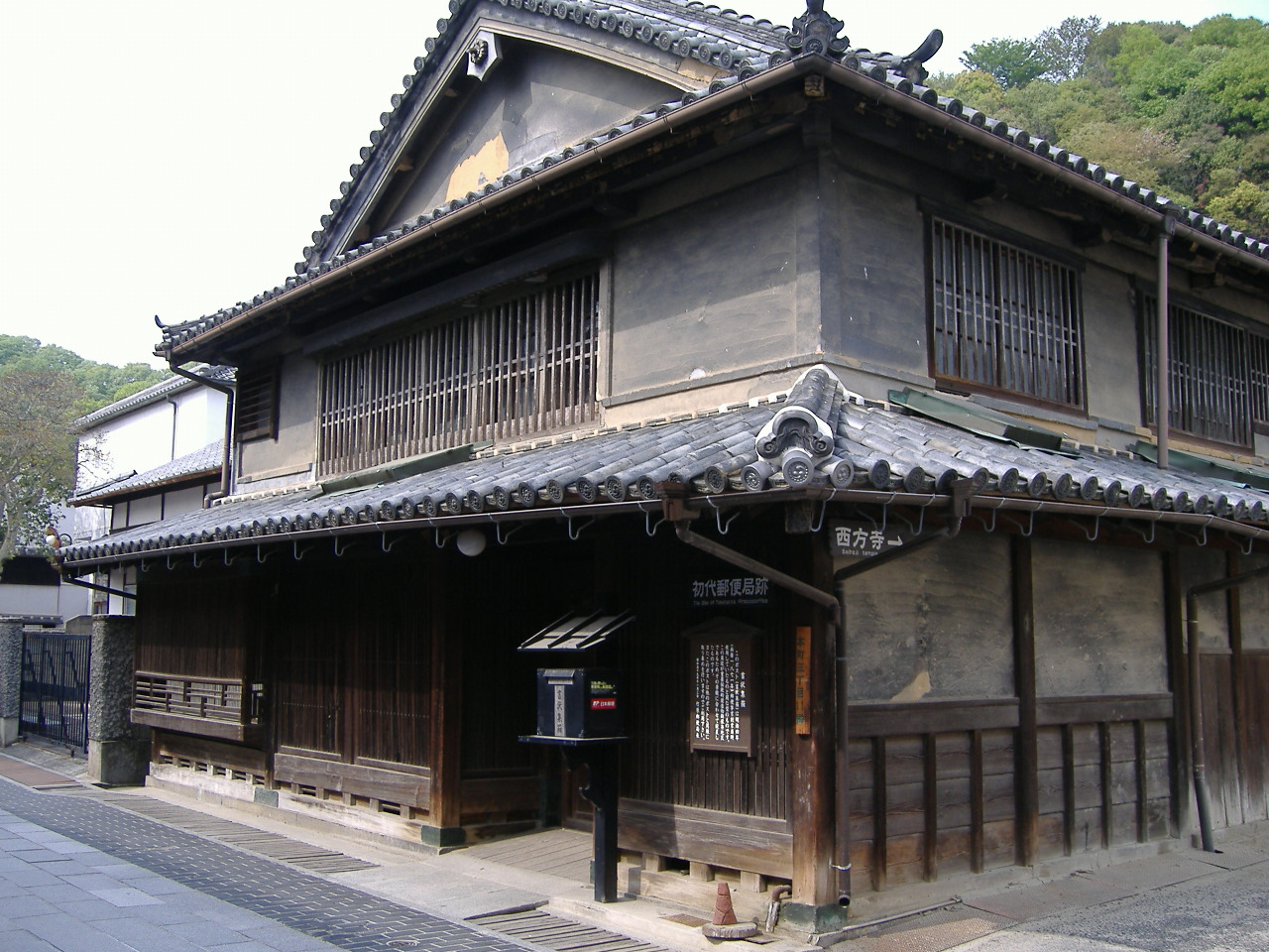 Old-Takehara Post office (Takehara, Japan)